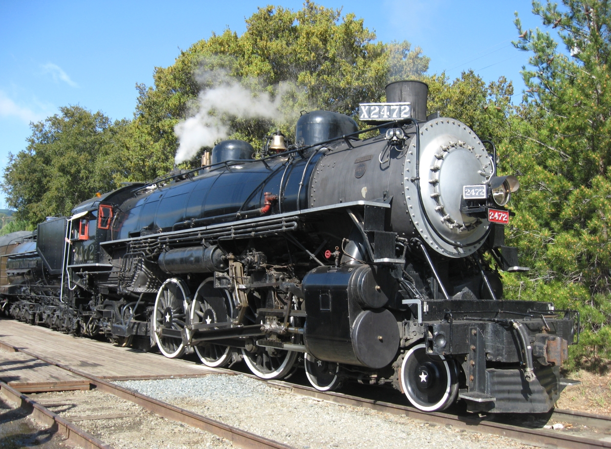 Southern Pacific P-8 Class 4-6-2 #2472 rests at Sunol, California prior to an excursion on Memorial Day, 2009.